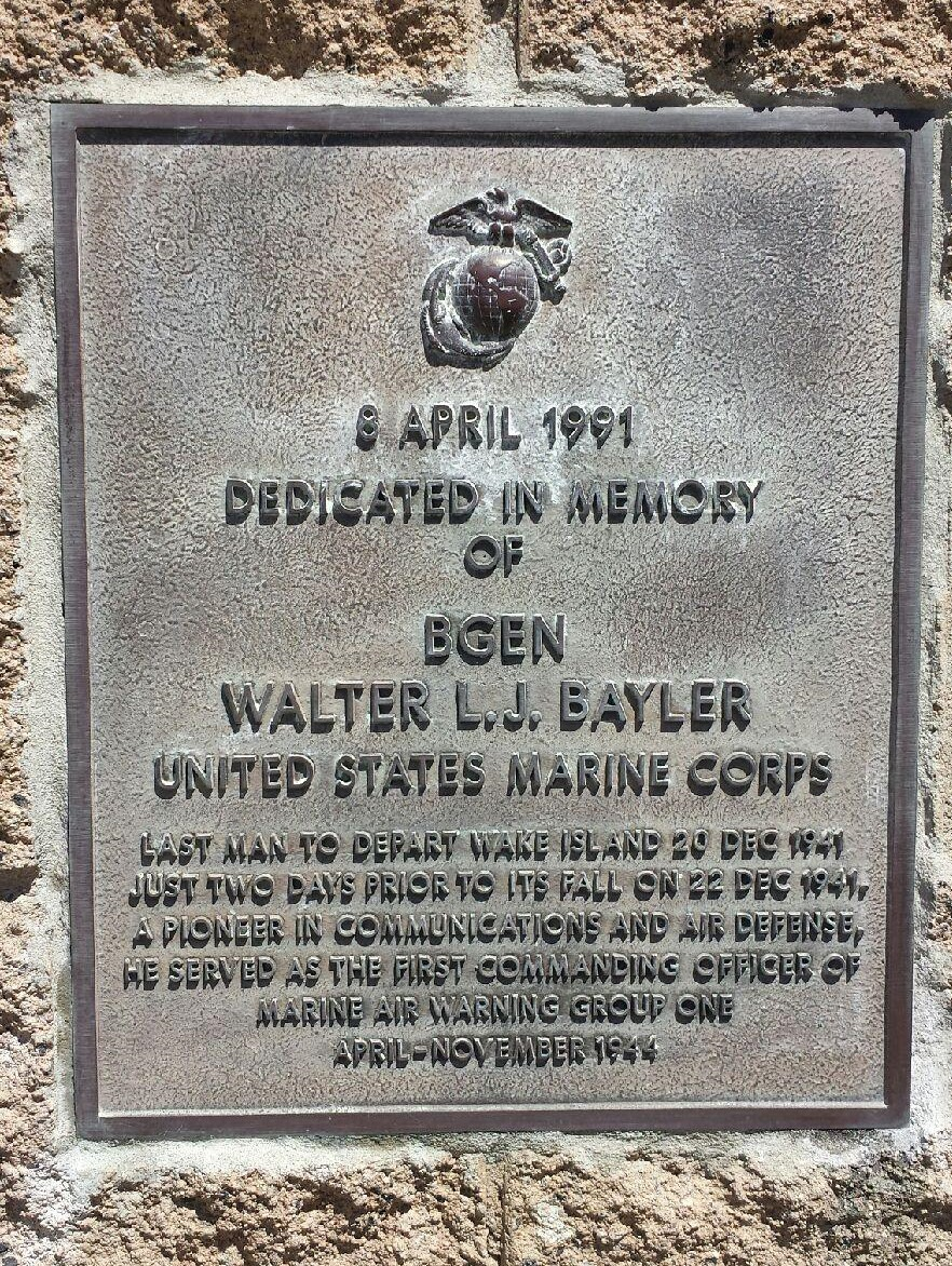 Plaque dedicated to BGen Walter L.J. Bayler at the MASS-3 headquarters on MCB Camp Pendleton, CA